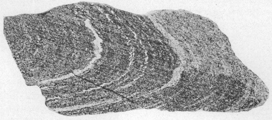 Figure caption: Specimen of Harpers Schist. Shows older folded schistosity parallel to bedding cut by younger cleavage inclined to bedding.